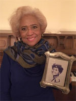 Dr. Sandra Williams Ortega holding a photo of herself in uniform. The image is courtesy of the Maryland Commission for Women compliments of the Maryland State Archives.